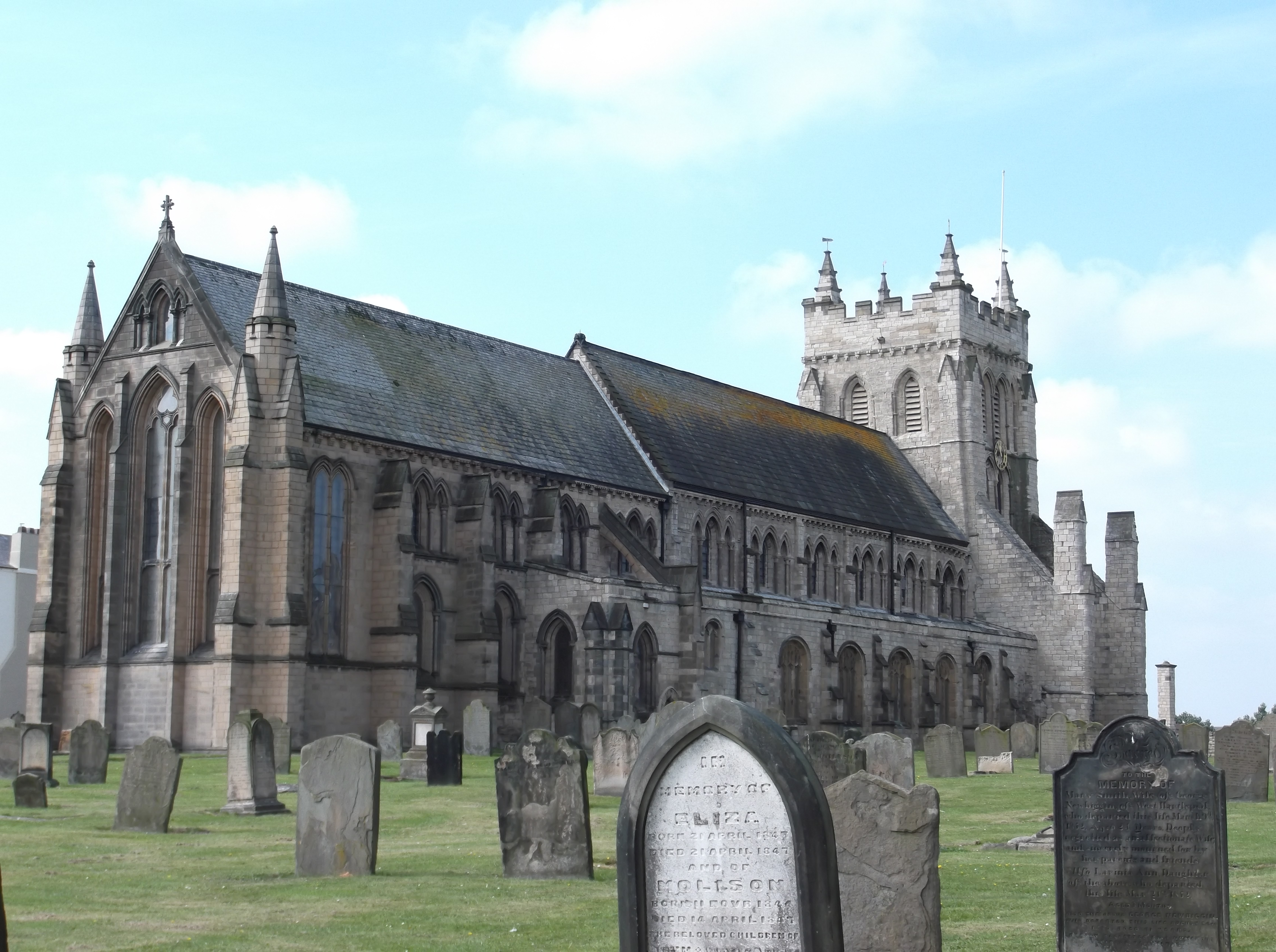 St Hilda's Church, Hartlepool, County Durham, England, seen from the northeast